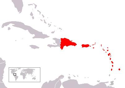 Altered using the public domain image Image:LocationLesserAntilles.png, this image shows areas affected by the Great Hurricane of 1780. 1780 Great Hurricane